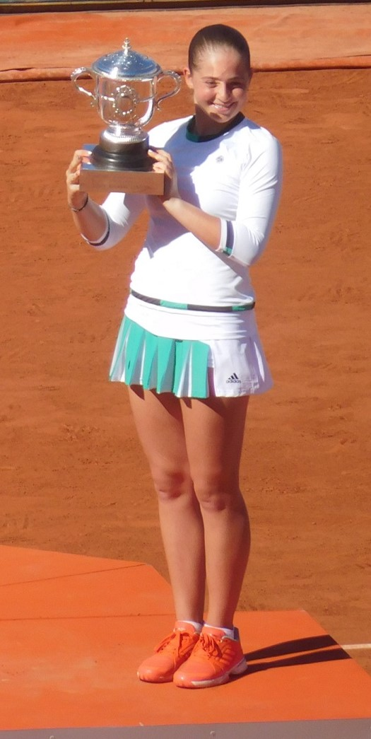 Jelena Ostapenko after winning the 2017 French Open